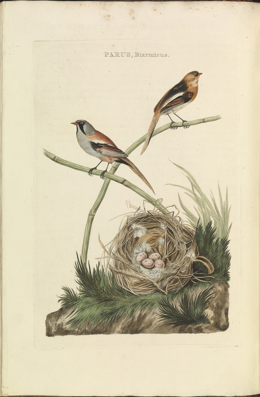 Plate 47 from the Nederlandsche vogelen by Nozeman and Sepp.